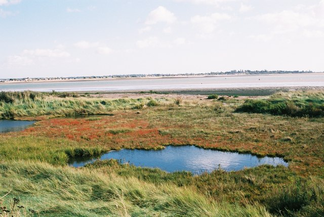 Eastern Tip of Mersea Island. Looking south across the Colne Estuary towards Brightlingsea. Tidal Lagoons in the foreground.